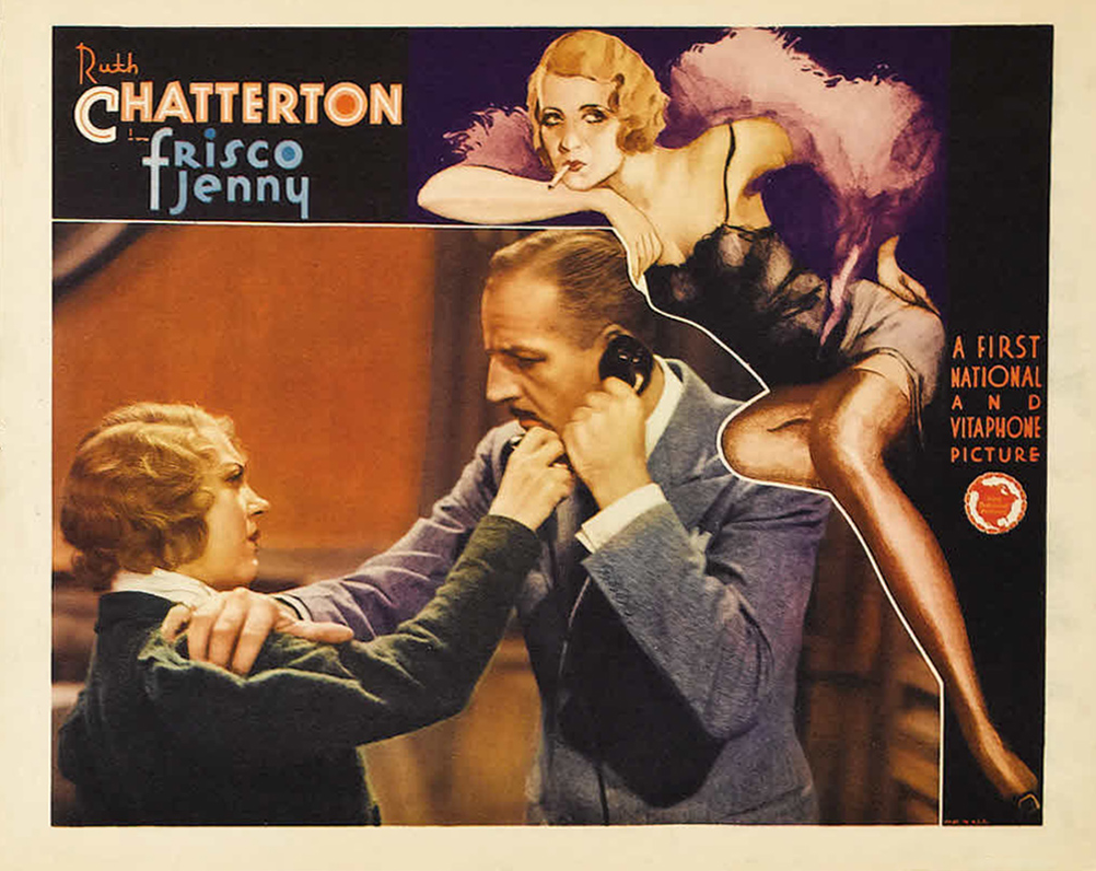 Lobby card for the American film Frisco Jenny (1933).